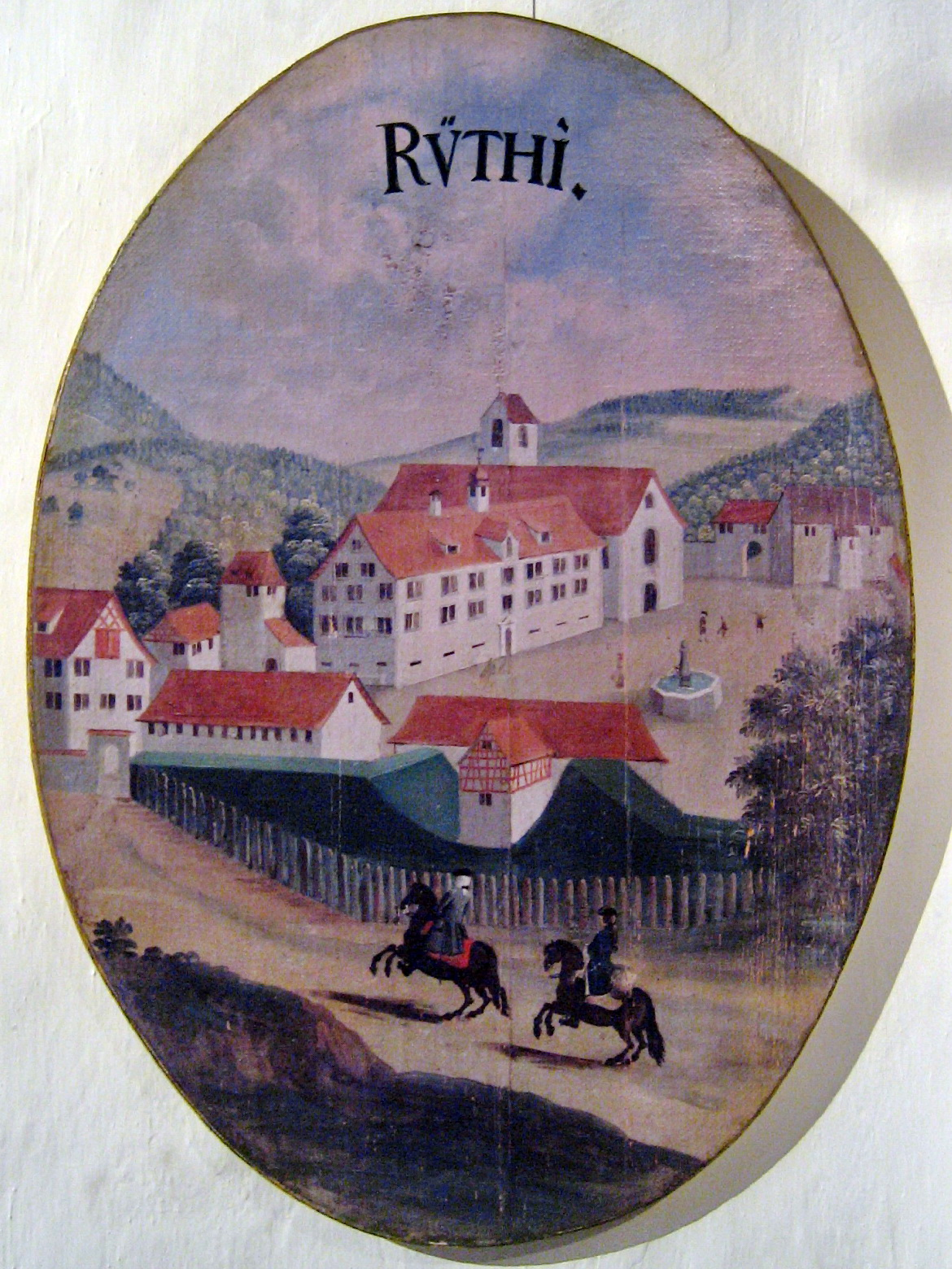 Stadtmuseum Rapperswil (SG) : Amt Rüti / former Premonstratensian Monastery Rüti (ZH) as seen from the north, ~ 18th century.